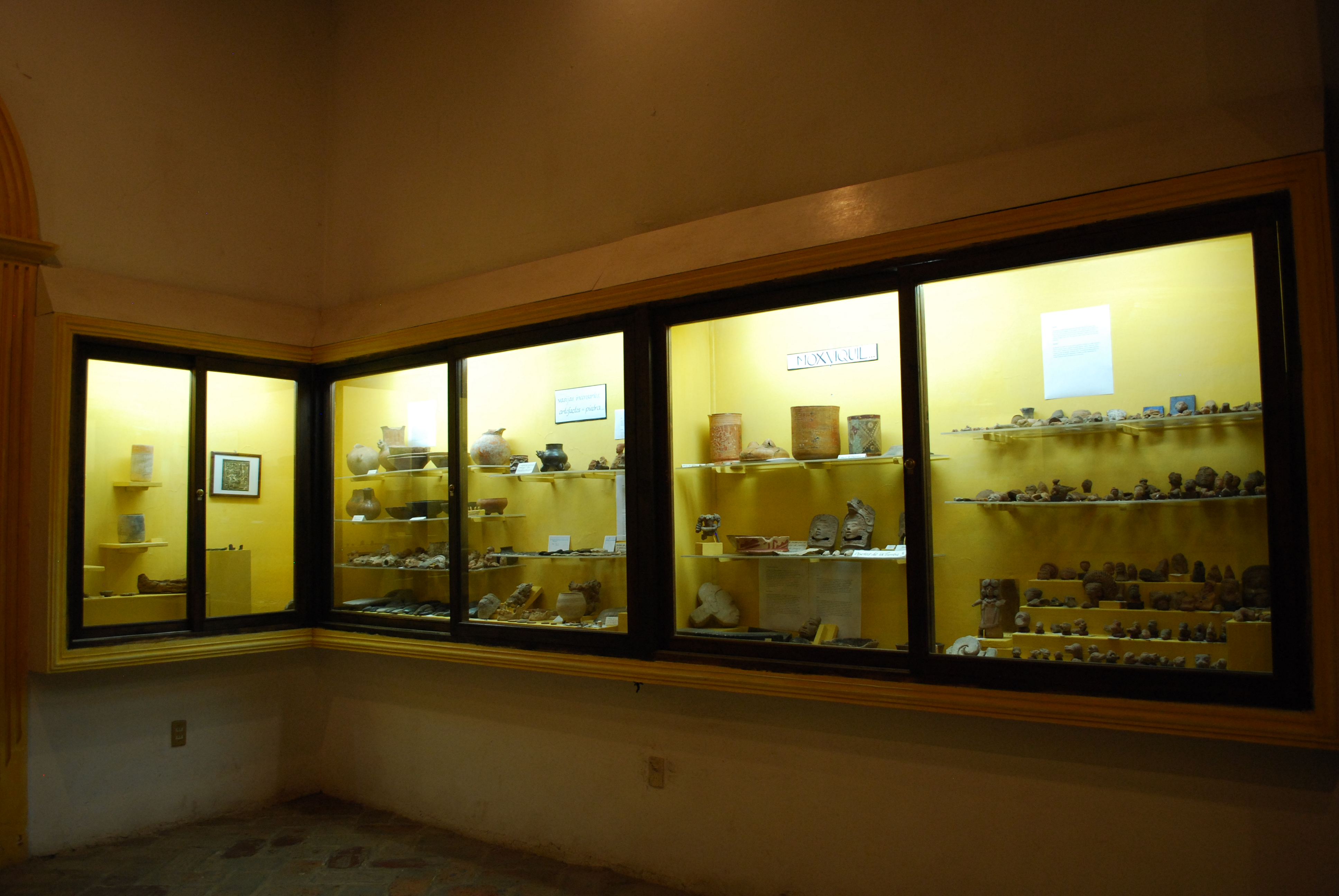 Display cases with archeological pieces at Casa Na Bolom in San Cristobal de las Casas, Chiapas, Mexico